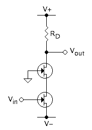 Added negative rail making it more obvious Added negative rail making it more obvious